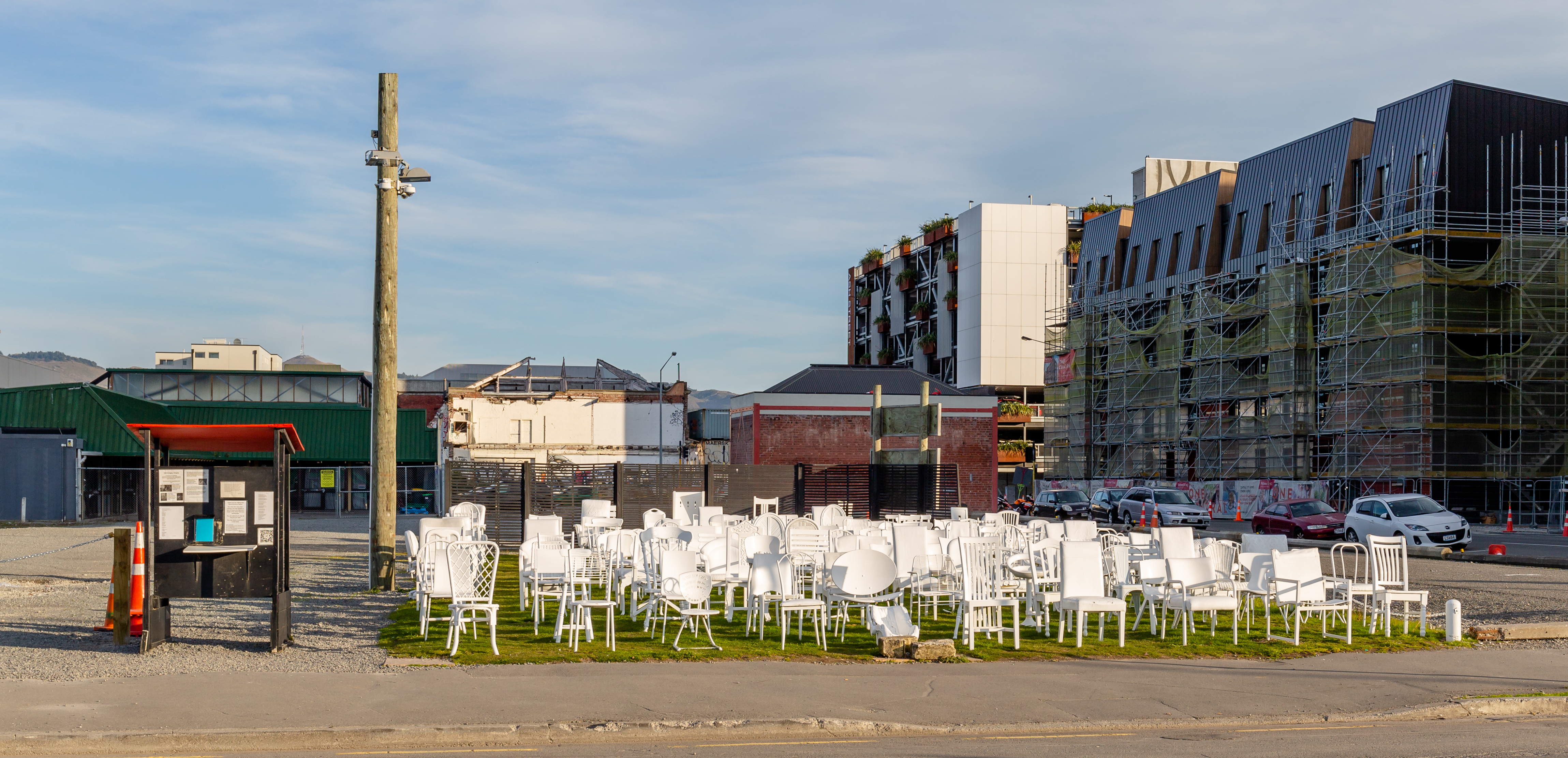 185 Empty Chairs, Christchurch, New Zealand